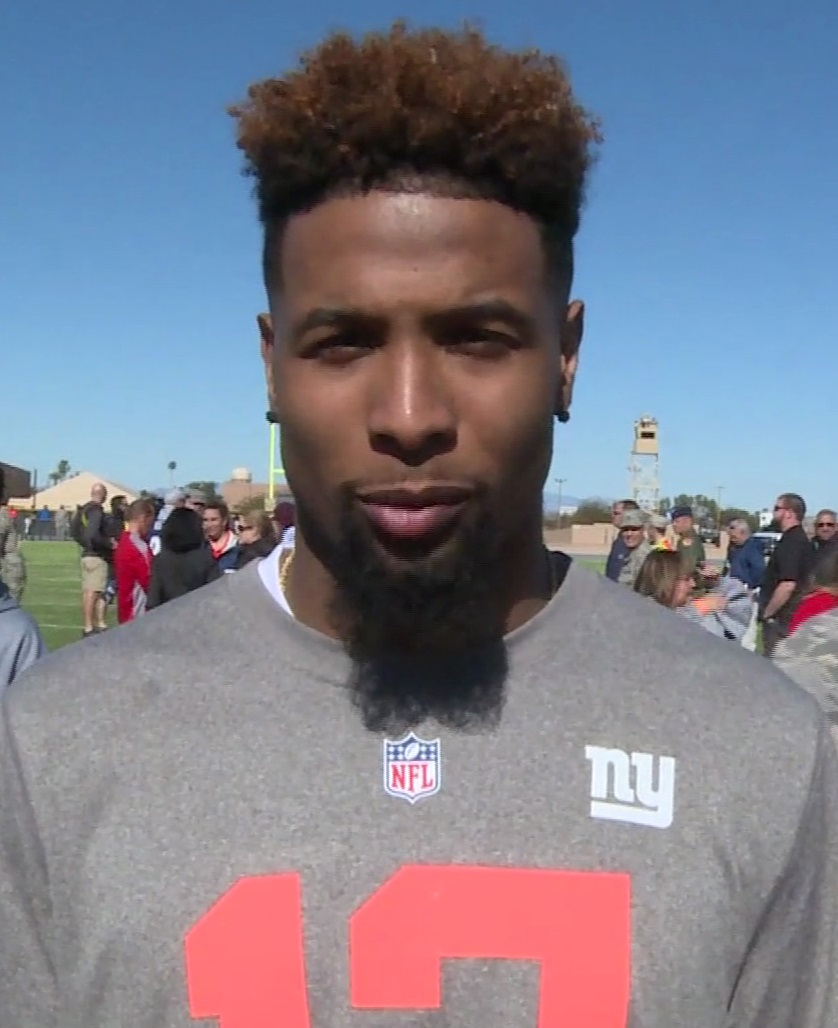 New York Giants wide receiver Odell Beckham Jr. gives a shout-out to service members while at Luke AFB, AZ. Beckham Jr. and other Pro Bowl players held a practice at Luke during the week of the 2015 NFL Pro Bowl.